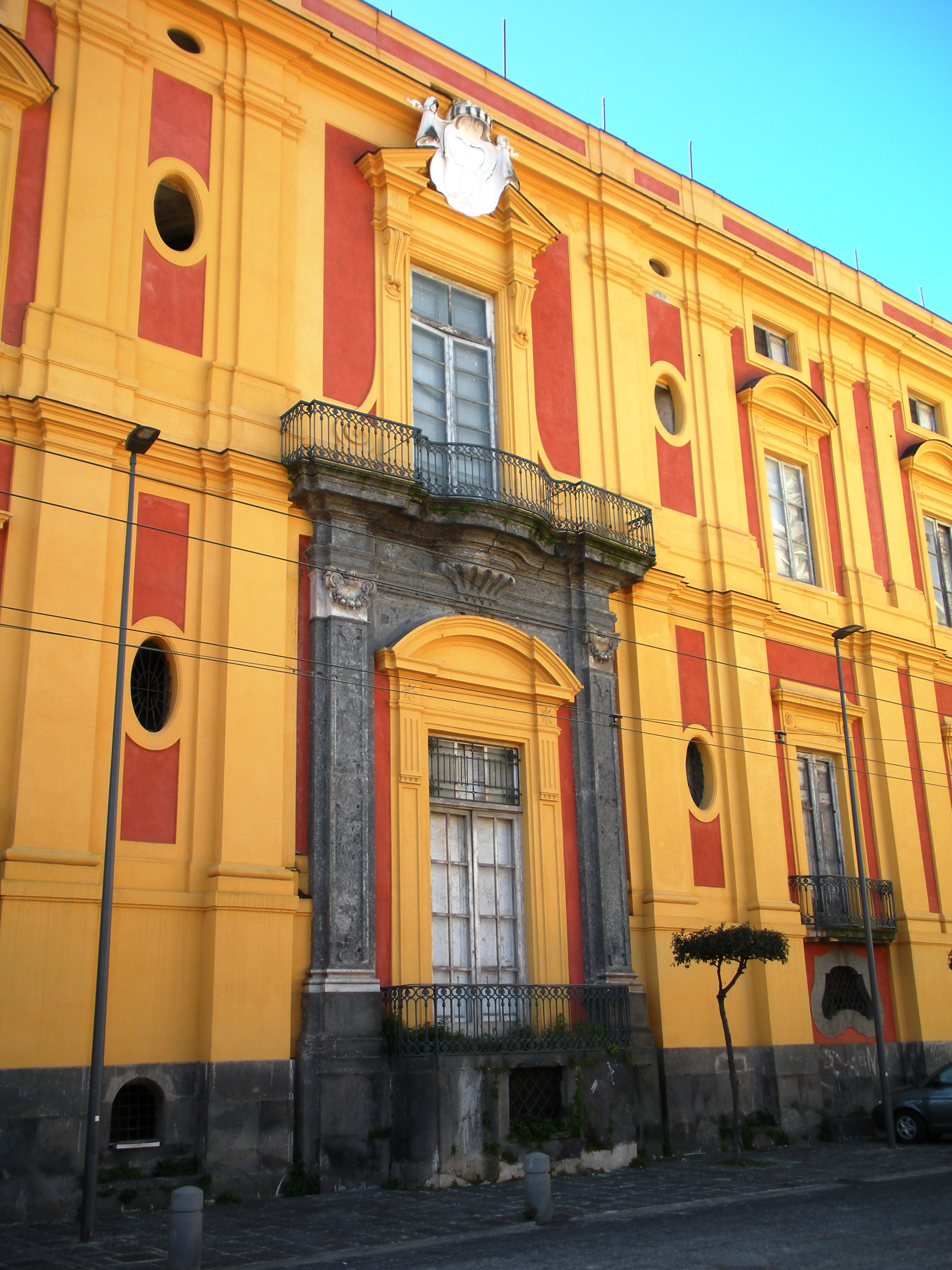 The façade of the Royal Villa Favorita on the Miglio d'Oro (The Golden Mile) in Ercolano